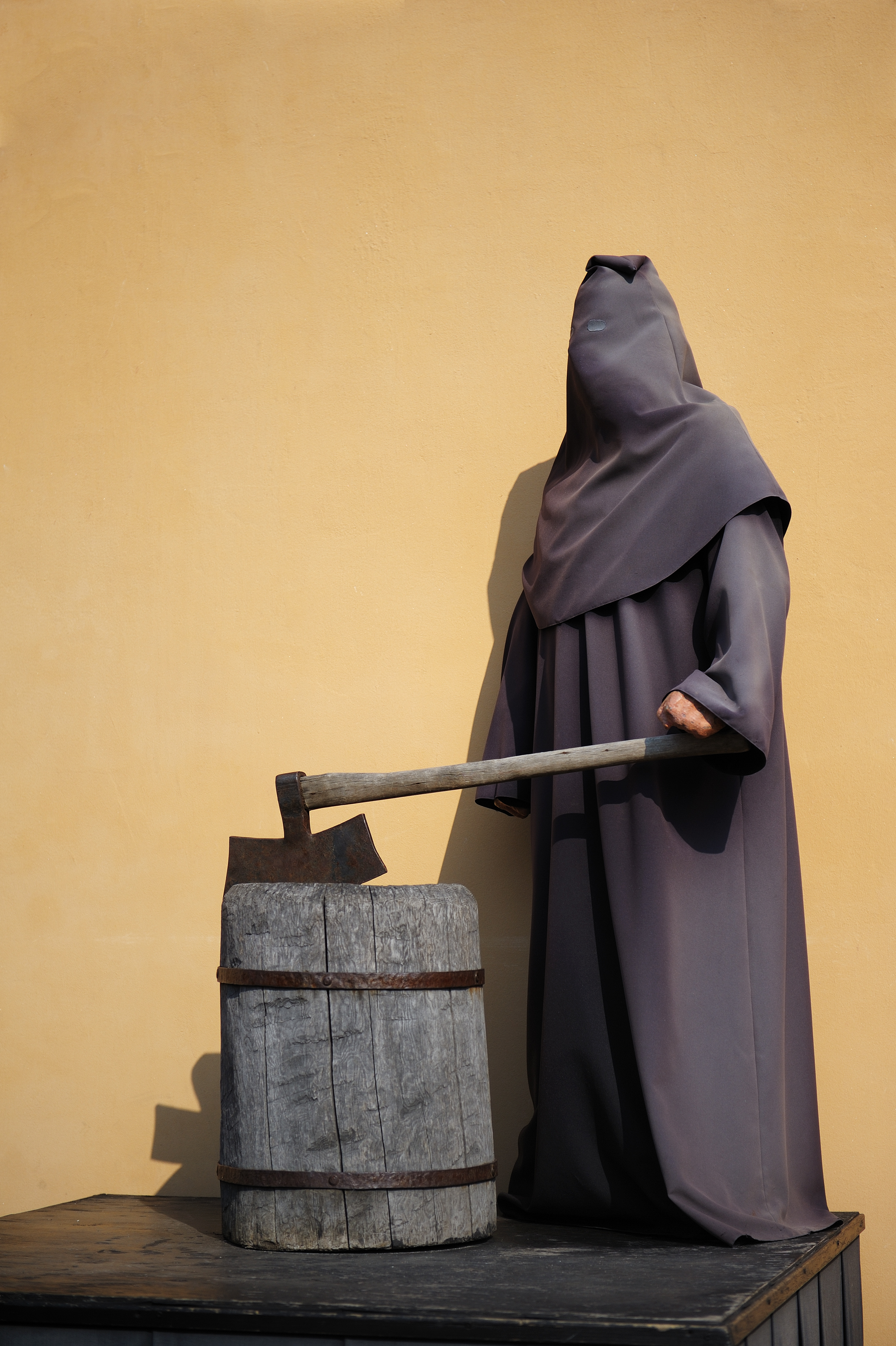 An executioner, Peter & Paul Fortress, Saint Petersburg, Russia.